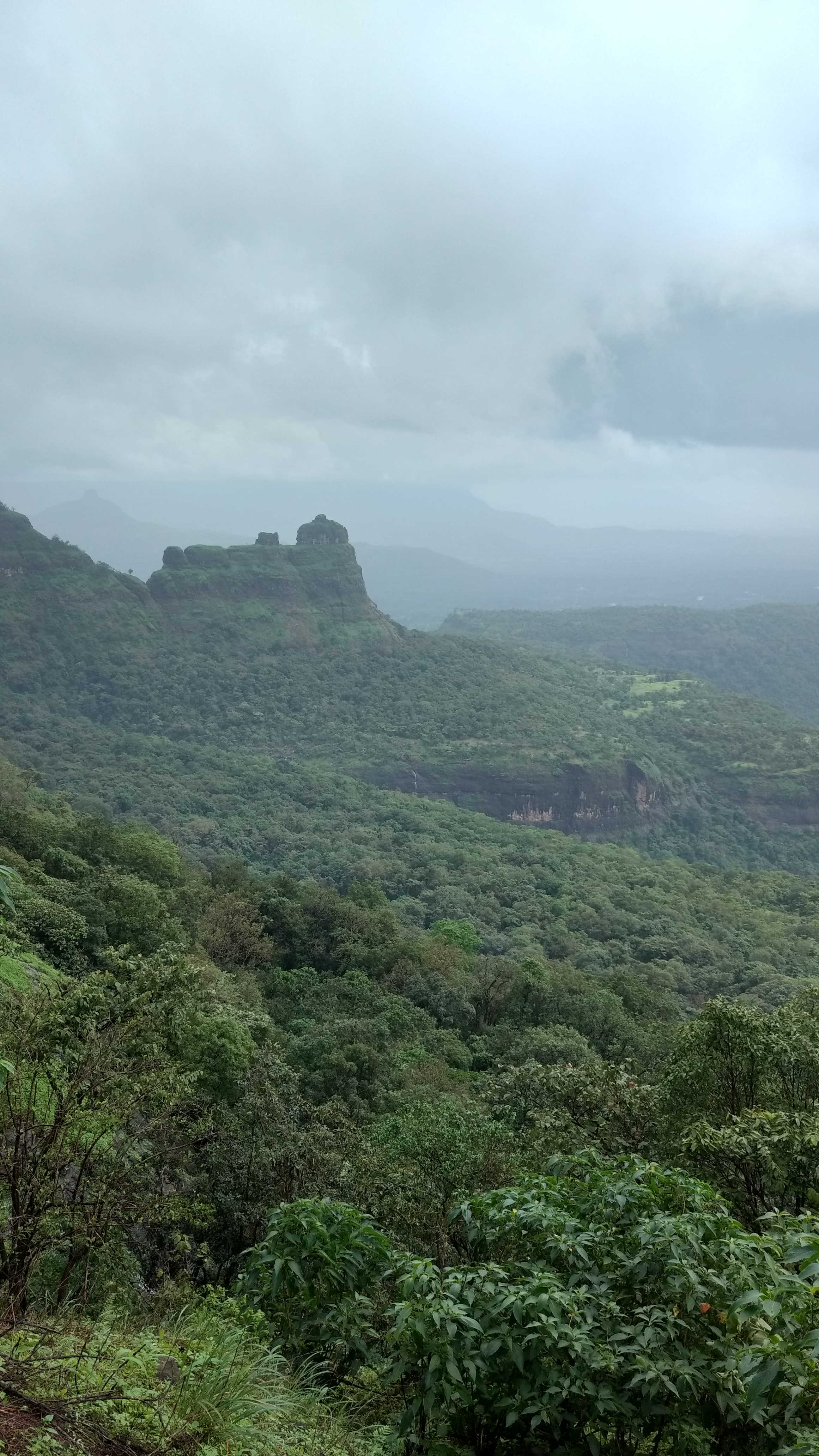 Khandas, Neral, India.